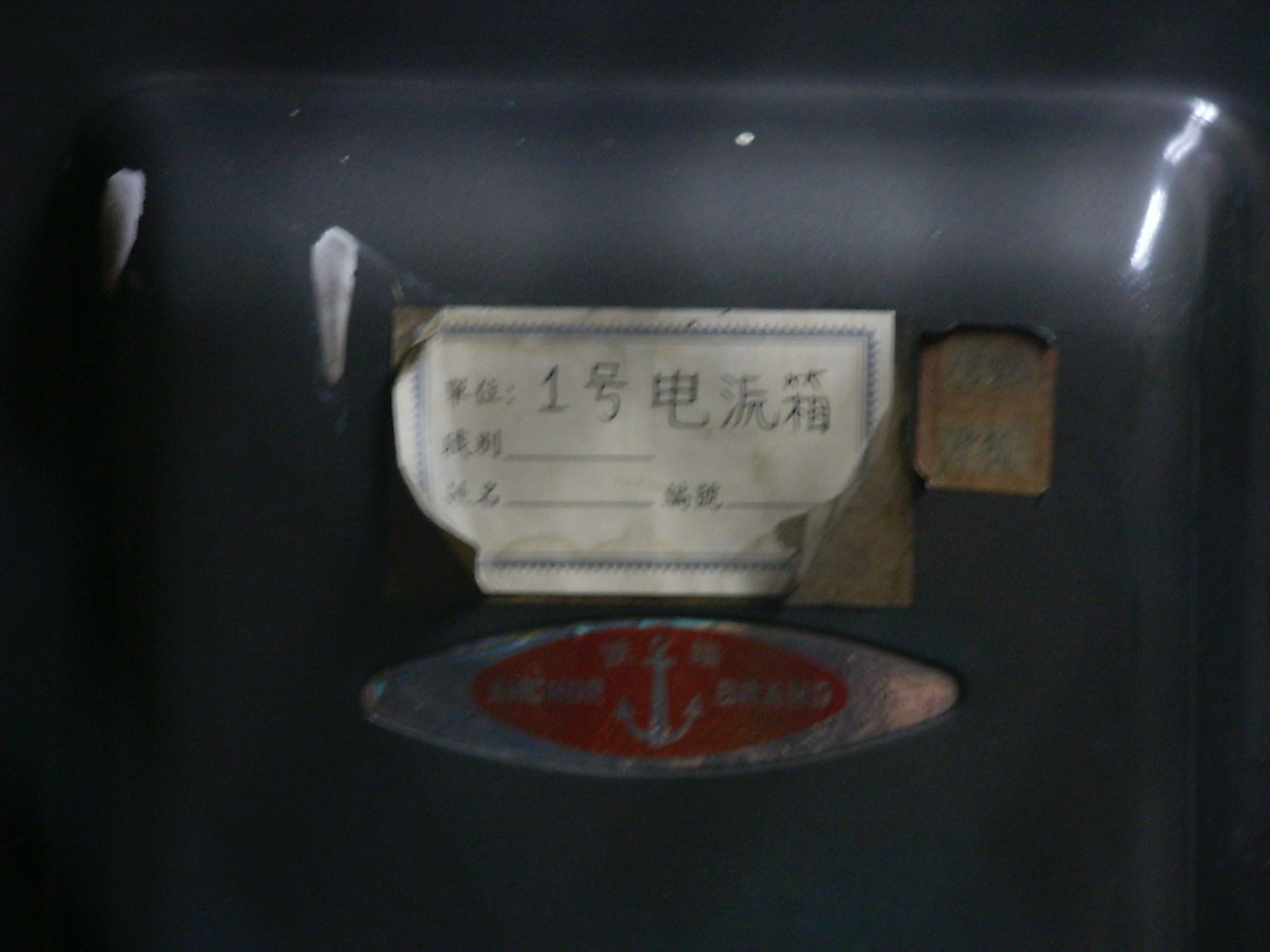 The informal Simplified Chinese from the utility box of Bajiao Amusement Park Station, Line 1, Beijing Subway 中文（台灣）: 北京地鐵1號線八角遊樂園站變電箱上的不規範簡化字 中文（中国大陆）: 北京地铁1号线八角游乐园站变电箱上的不规范简化字